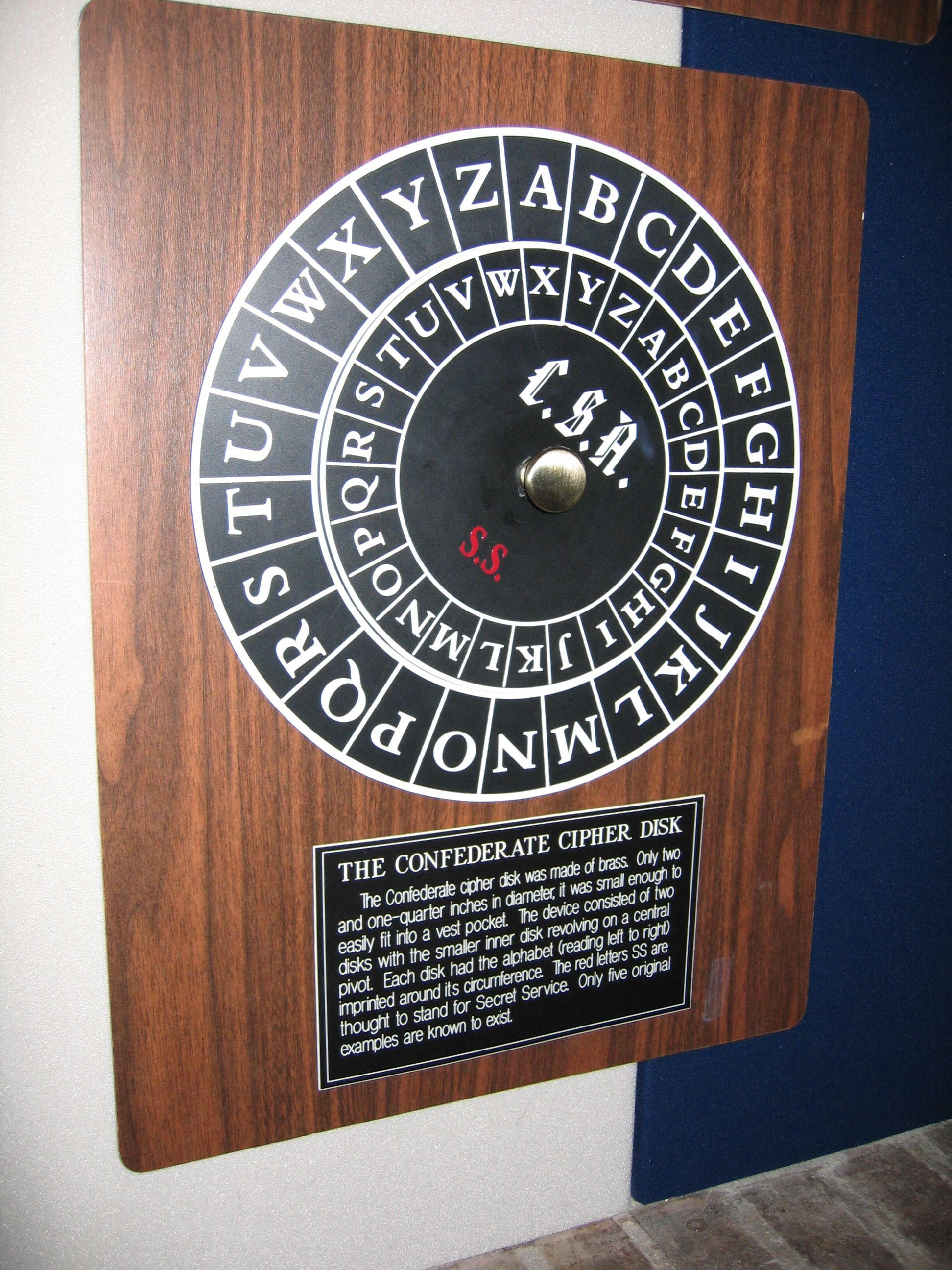 A reproduction of the CSA's cipher disk at the NSA museumCivil War - CSA Cipher Disk